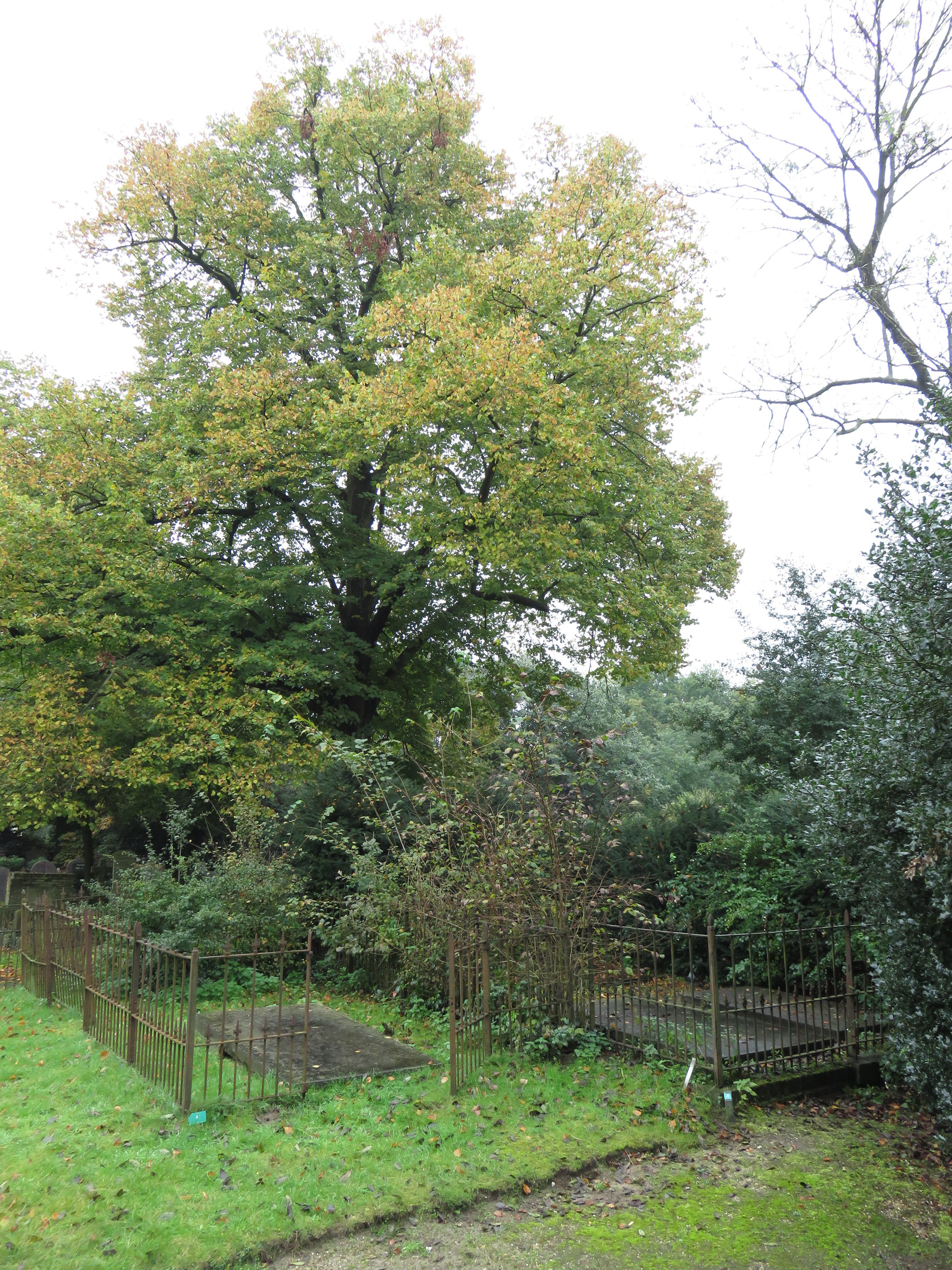 Under the monumental Limetree, there is the grave of Willem Hendrik de Beaufort (1775-1829). It's the one in the back.